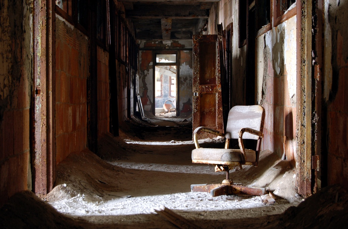 Offices on the second floor of Buffalo Central Terminal.The rental office space on the upper floors attest to the desire to keep the complex financially self-supporting due to its high maintenance costs.